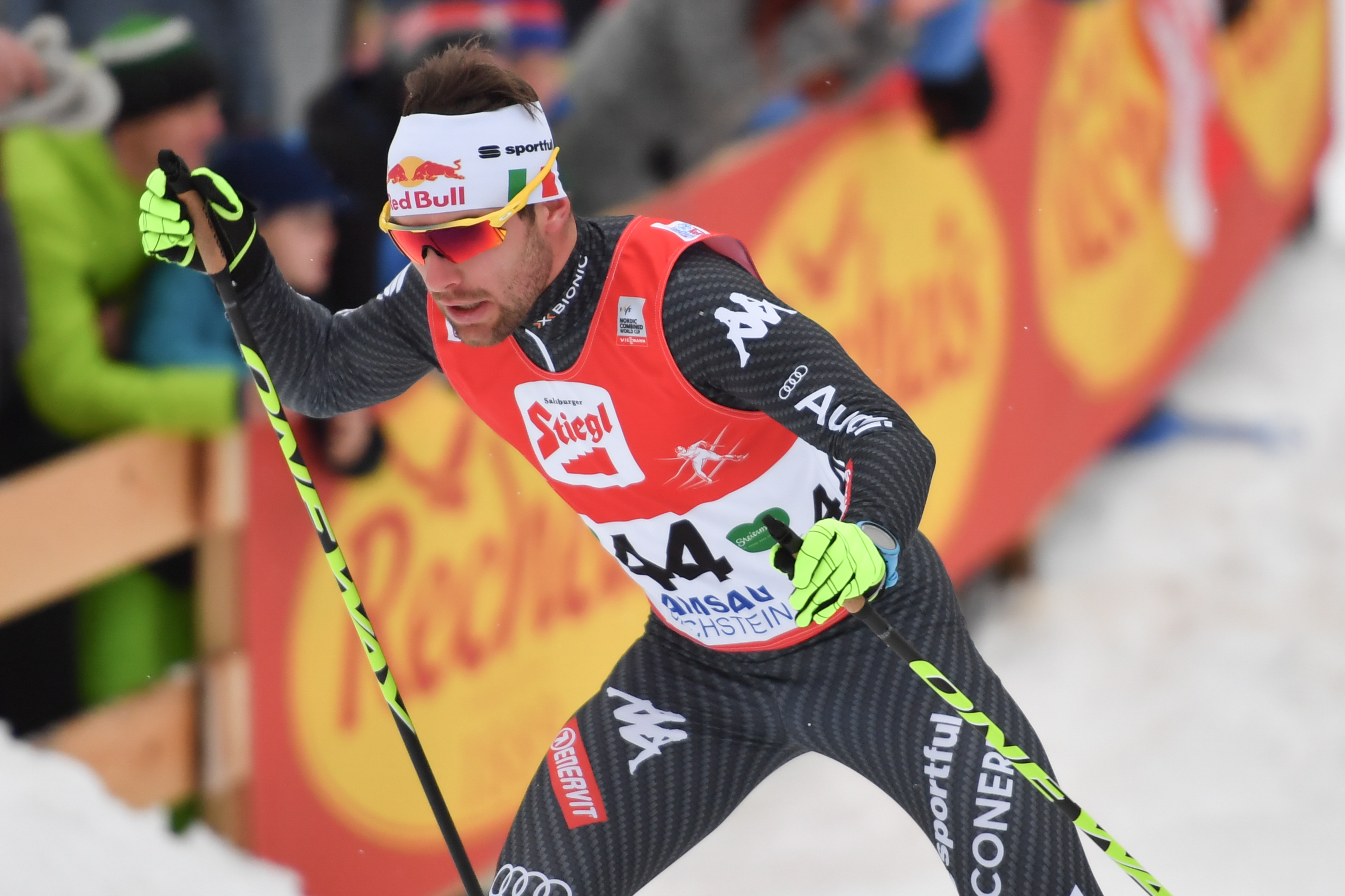 FIS World Cup Nordic Combined, Ramsau/Austria, 2016-12-16 to 2016-12-18.